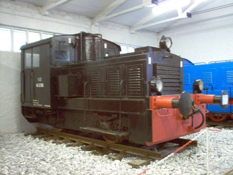 German light diesel locomotive, DRG Kö 5750.